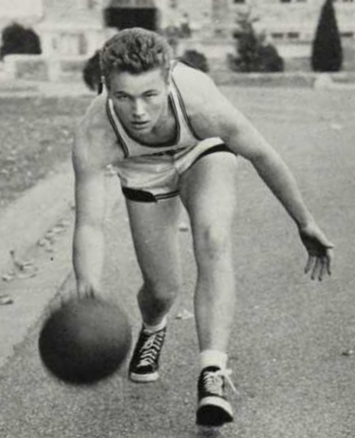 Georgetown University Hoyas Basketball player Billy Hassett from the 1943 “Domesday Booke” yearbook.